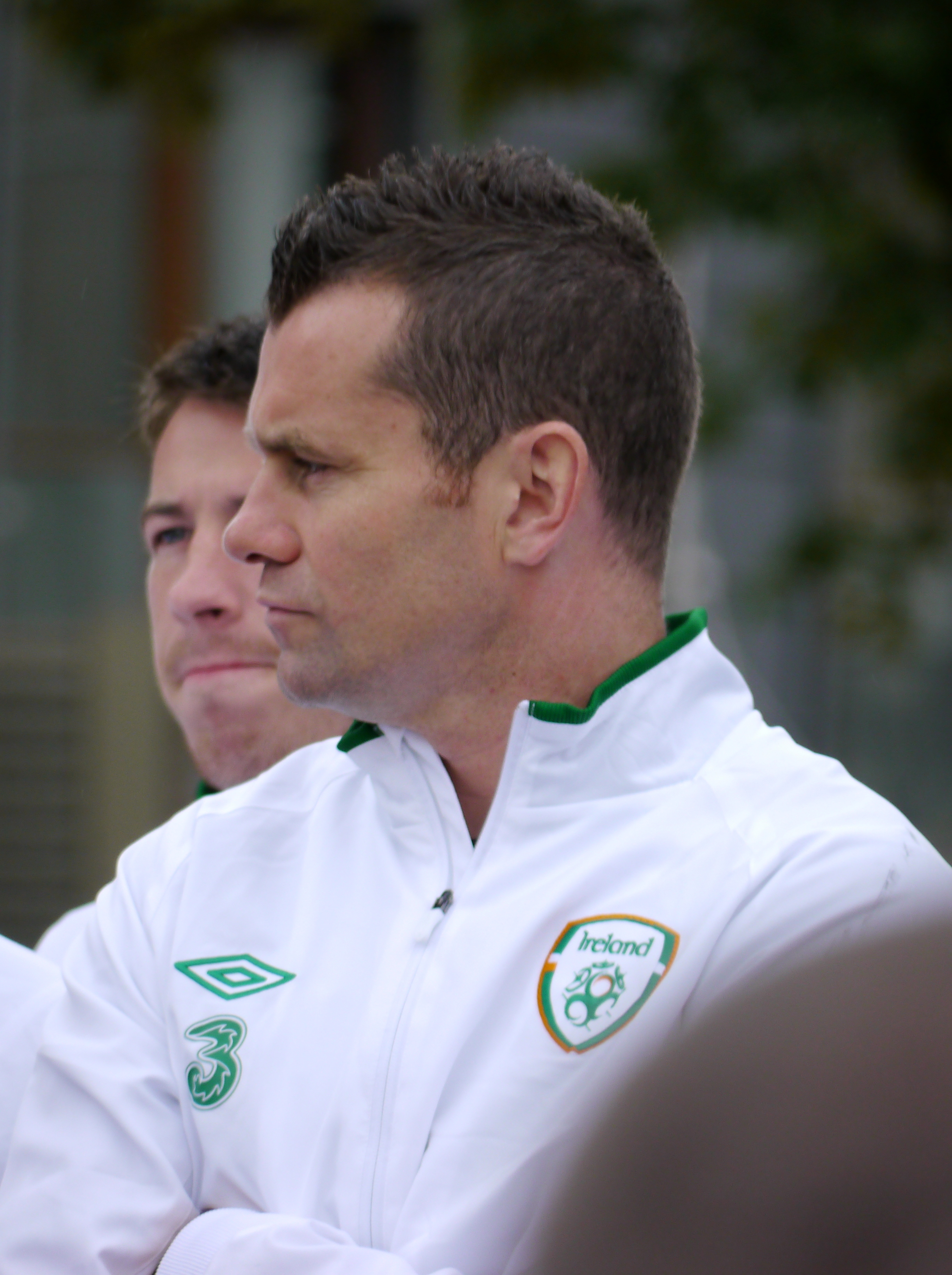 Irish football player Shay Given during "welcome ceremony" in Sopot, just before EURO 2012.